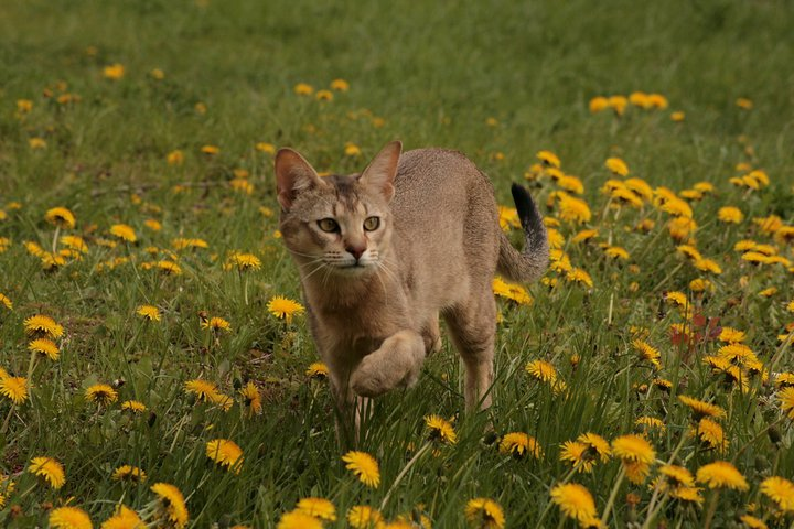 Abicatz Zamphyr